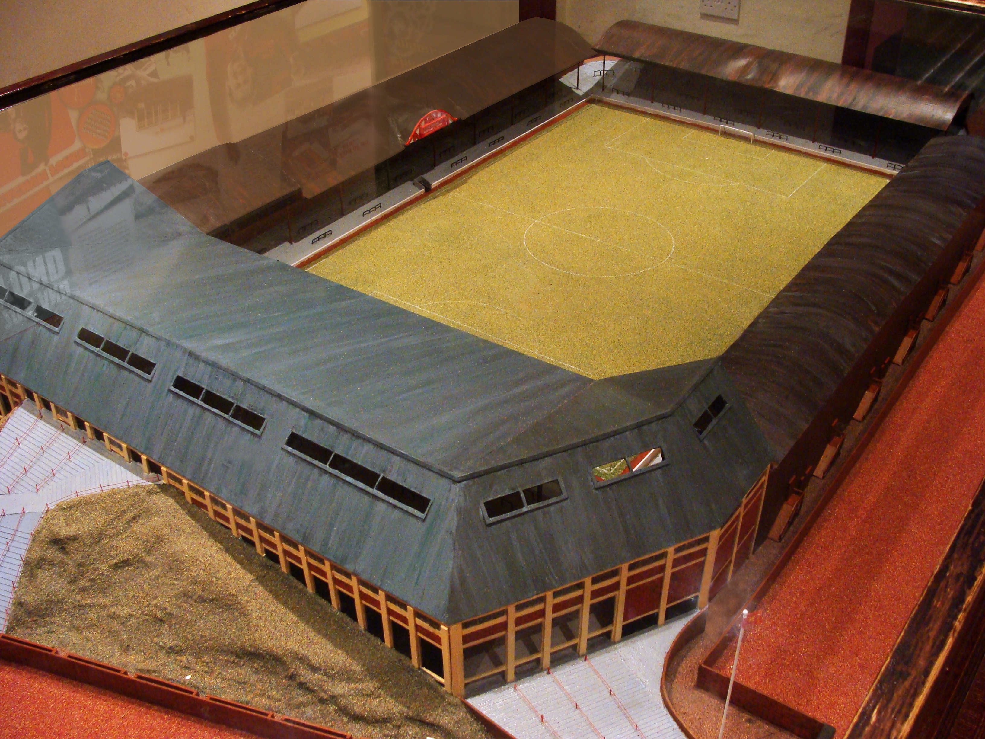 Scale model of the Anfield stadium in Liverpool as it looked in period between 1928 (when the roof over the Kop was built) and June 1956 (when the first floodlights were installed). On display at the Liverpool FC museum at Anfield. View to the north.